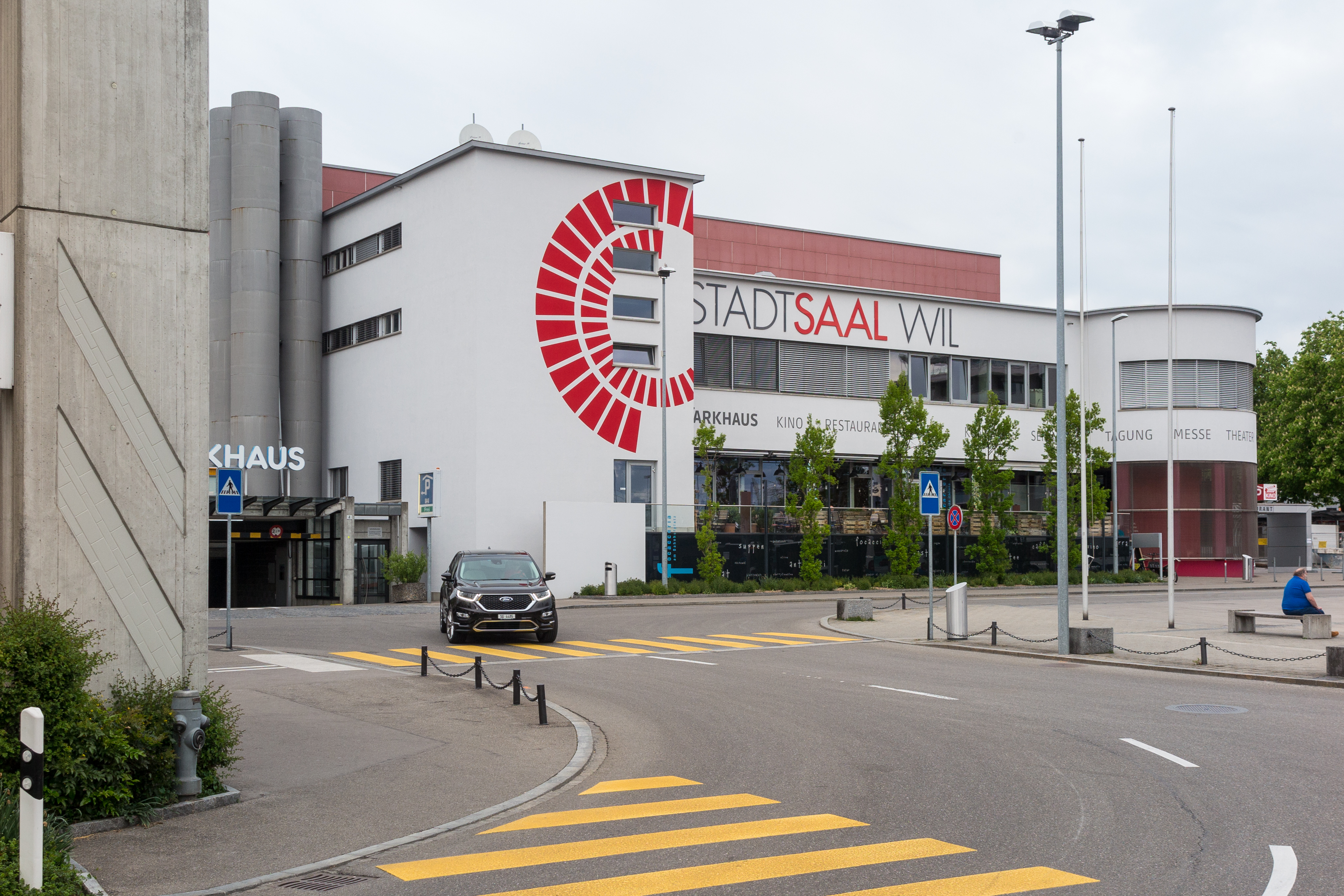 "Stadtsaal Wil" event location in Wil, canton of St. Gallen, Switzerland.